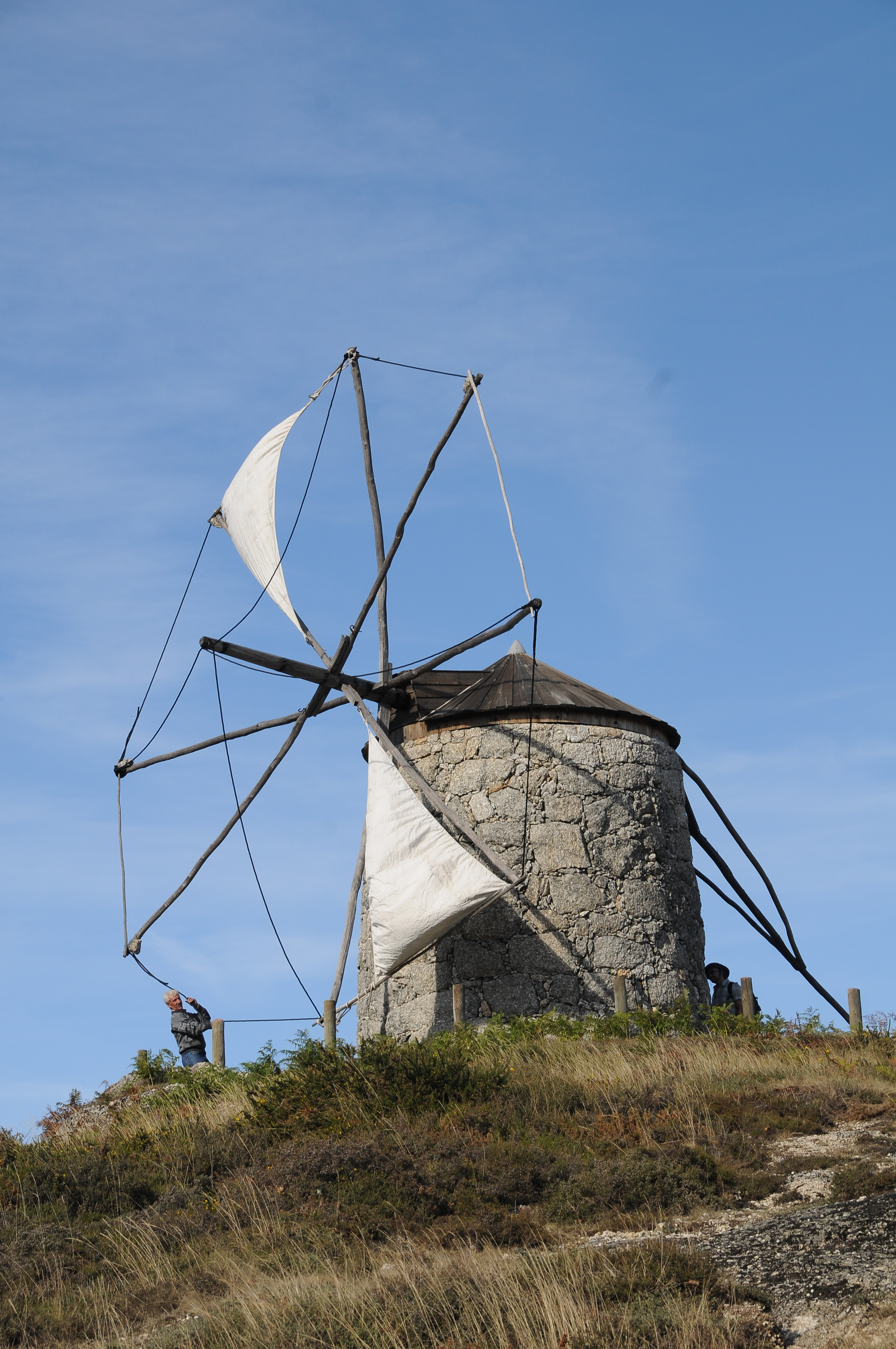 Windmill in Aboim, Fafe, Portugal